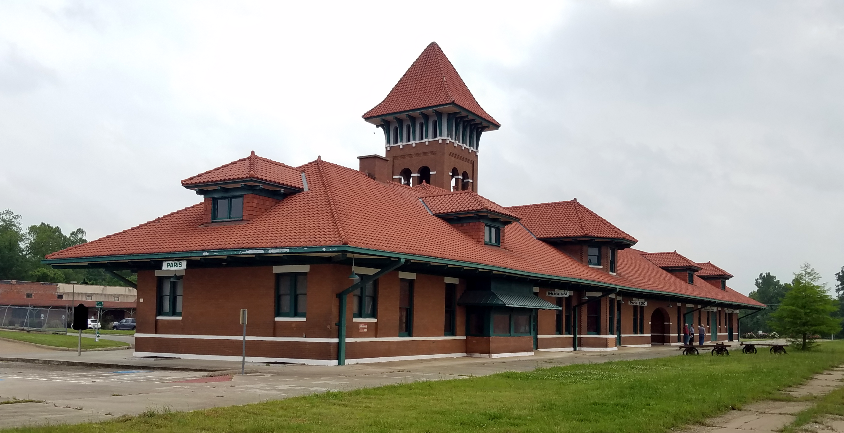 Paris Union Station, opened in 1912, served St. Louis–San Francisco Railway (Frisco), Atchison, Topeka and Santa Fe Railway (Santa Fe), and Texas Midland Railroad passenger trains.